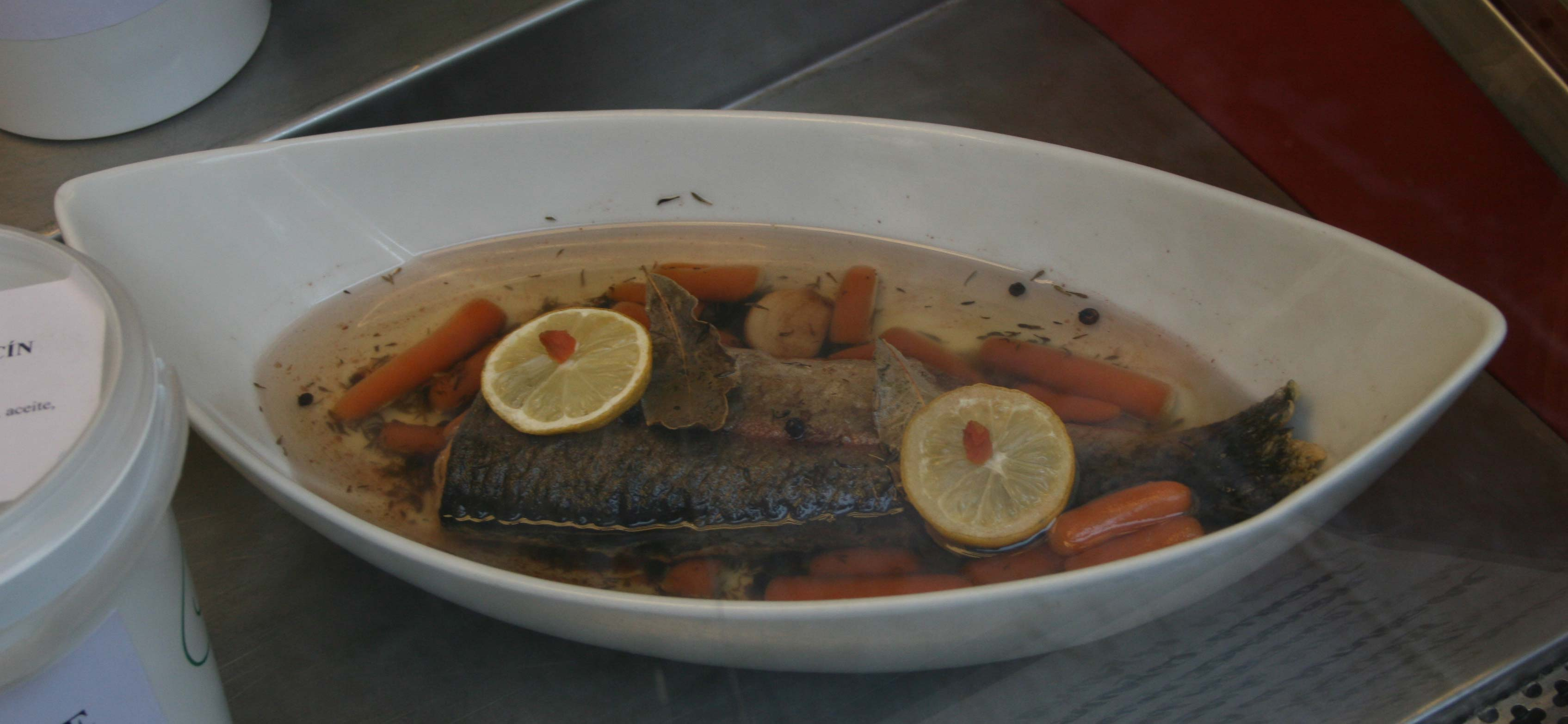 Marinated fish in vinegar